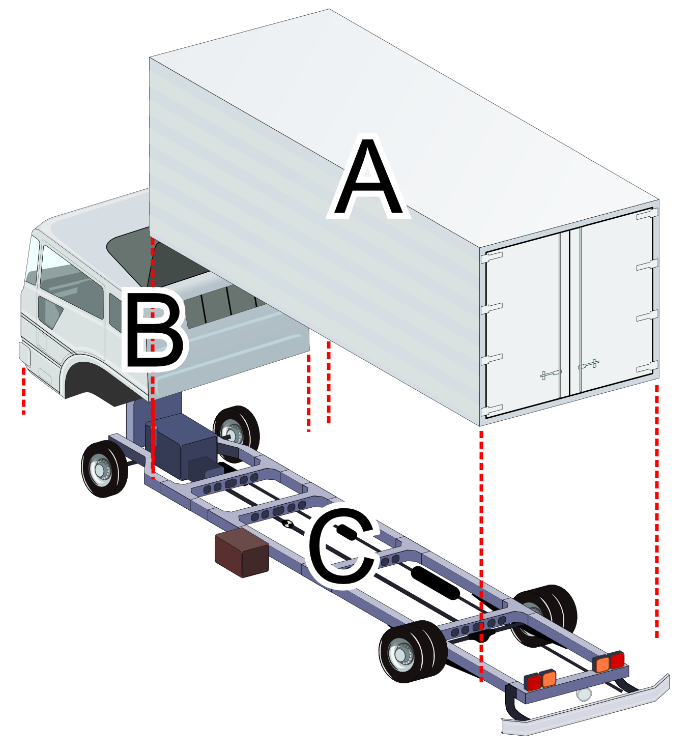 Truck's main elements A:Van_body B:Cabin C:Chassis